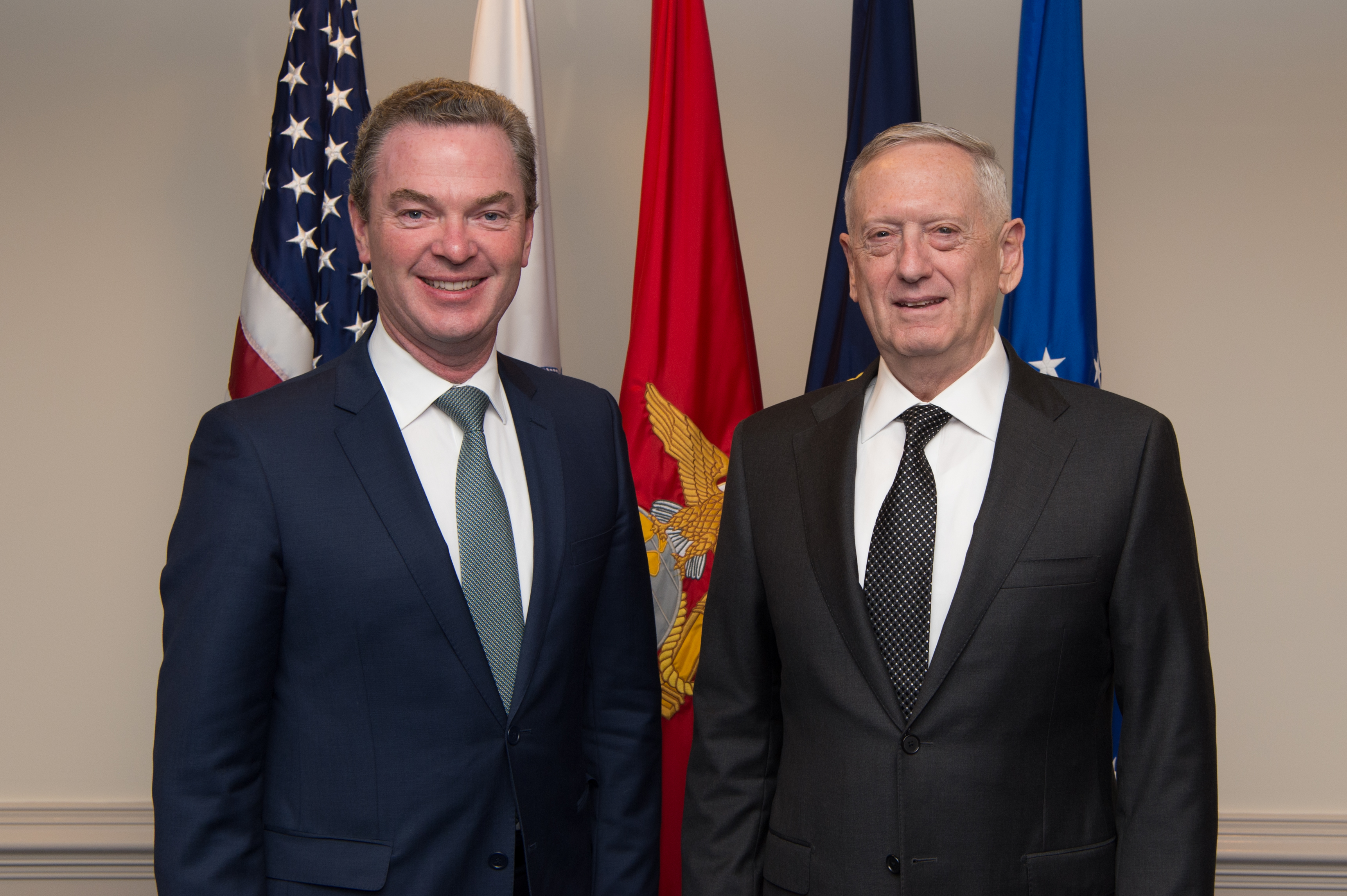 Defense Secretary Jim Mattis stands with Australia’s Minister for Defence Industry Christopher Pyne before an office call at the Pentagon in Washington, D.C., April 6, 2017. (DOD photo by U.S. Army Sgt. Amber I. Smith)